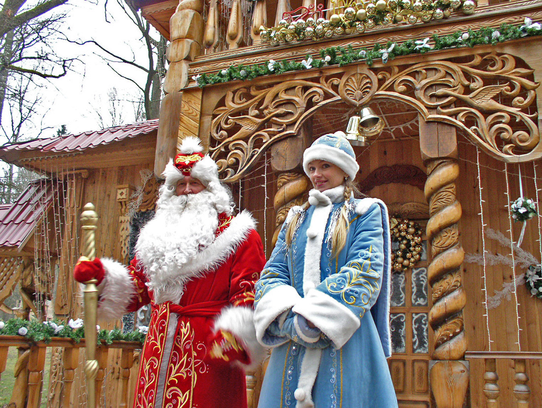 Father Frost of Belarus in Belovezhskaya Pushcha, in winter